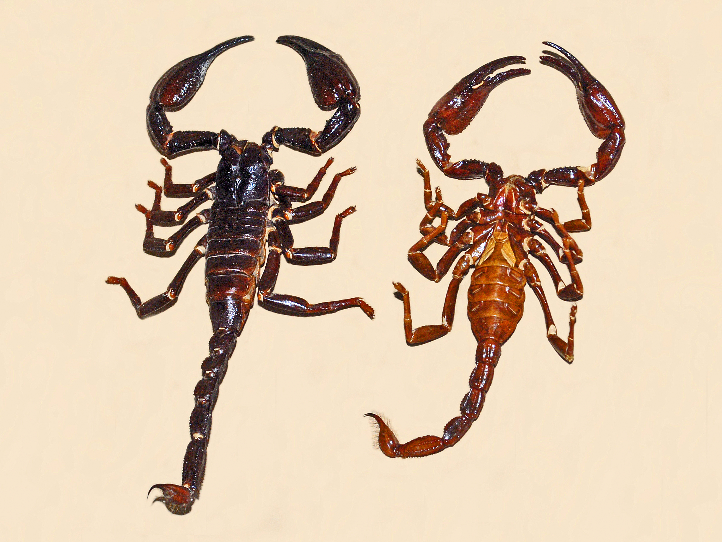 Heterometrus longimanus from Borneo, Dorsal and ventral view. Museum specimen